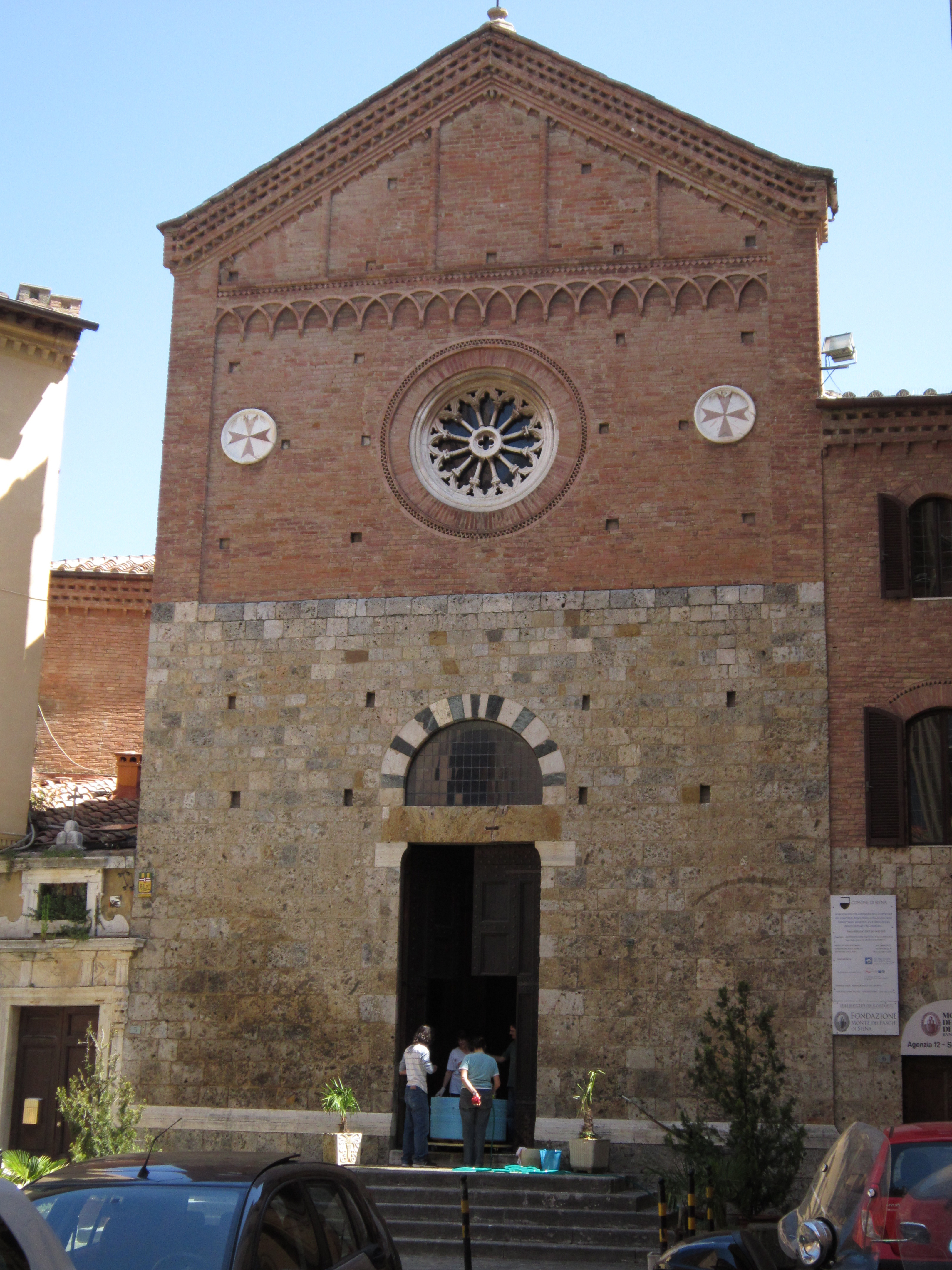 Chiesa di San Donato a Siena